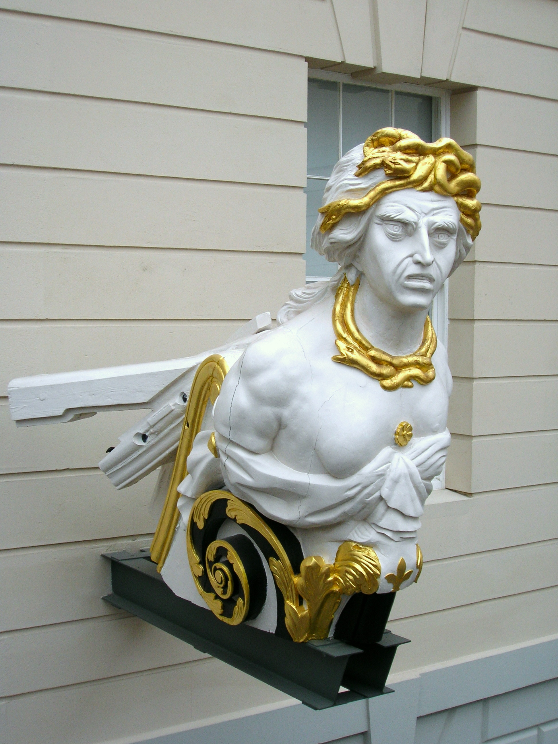 Figurehead of the 74-gun ship Implacable, 1800, originally named Duguay Trouin by the French.